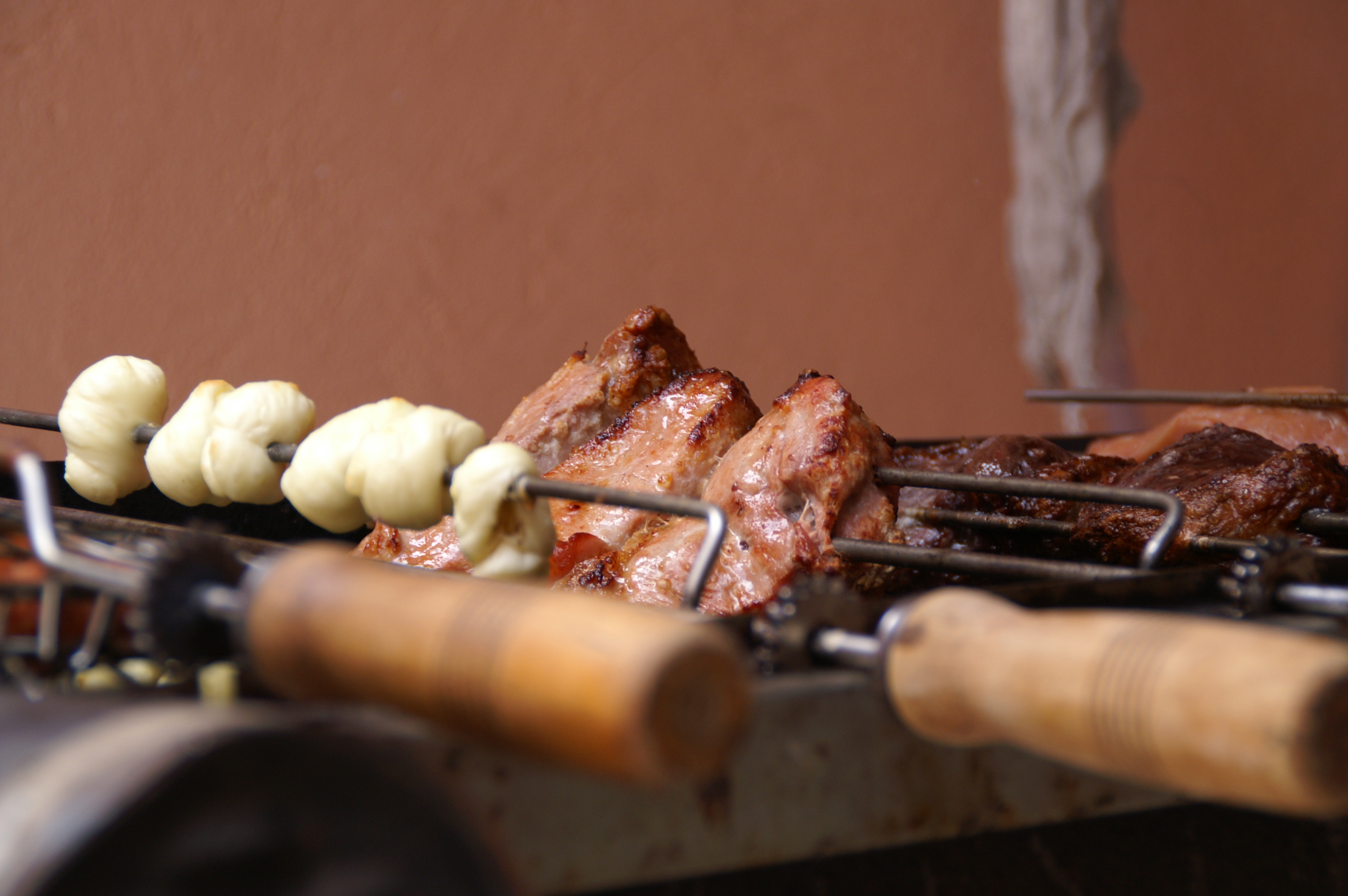 Mozzerella and lamb spin on spits during a brazilian barbeque in Belo Horizonte, Brazil. Photo by Benjamin Thompson